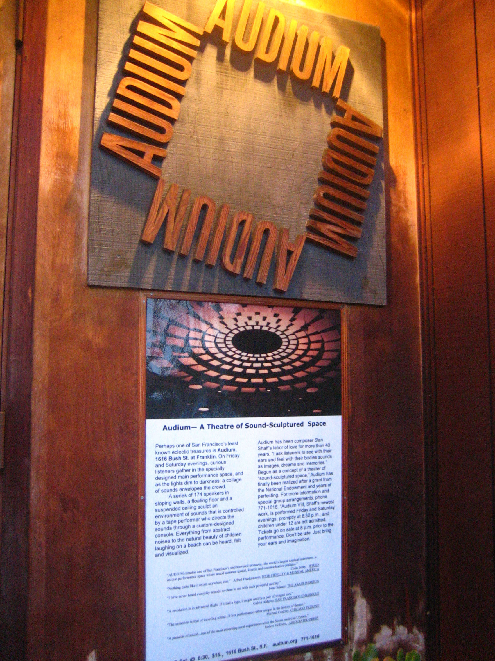 Sign next to the door for the Audium theater in San Francisco (a sound art event)